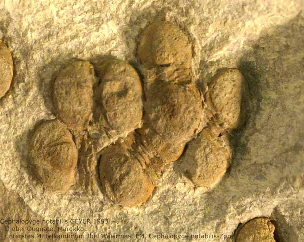 Marocconus notabilis (Geyer, 1988), synonym Cephalopyge notabilis ; Small blind Trilobite from the order of Agnostida, suborder Eodiscina; From Lower Middle Cambrian, Jbel Wawrmast Formation, Cephalopyge notabilis-Zone; Tahoucht, Djebel Ougnate, Morocco